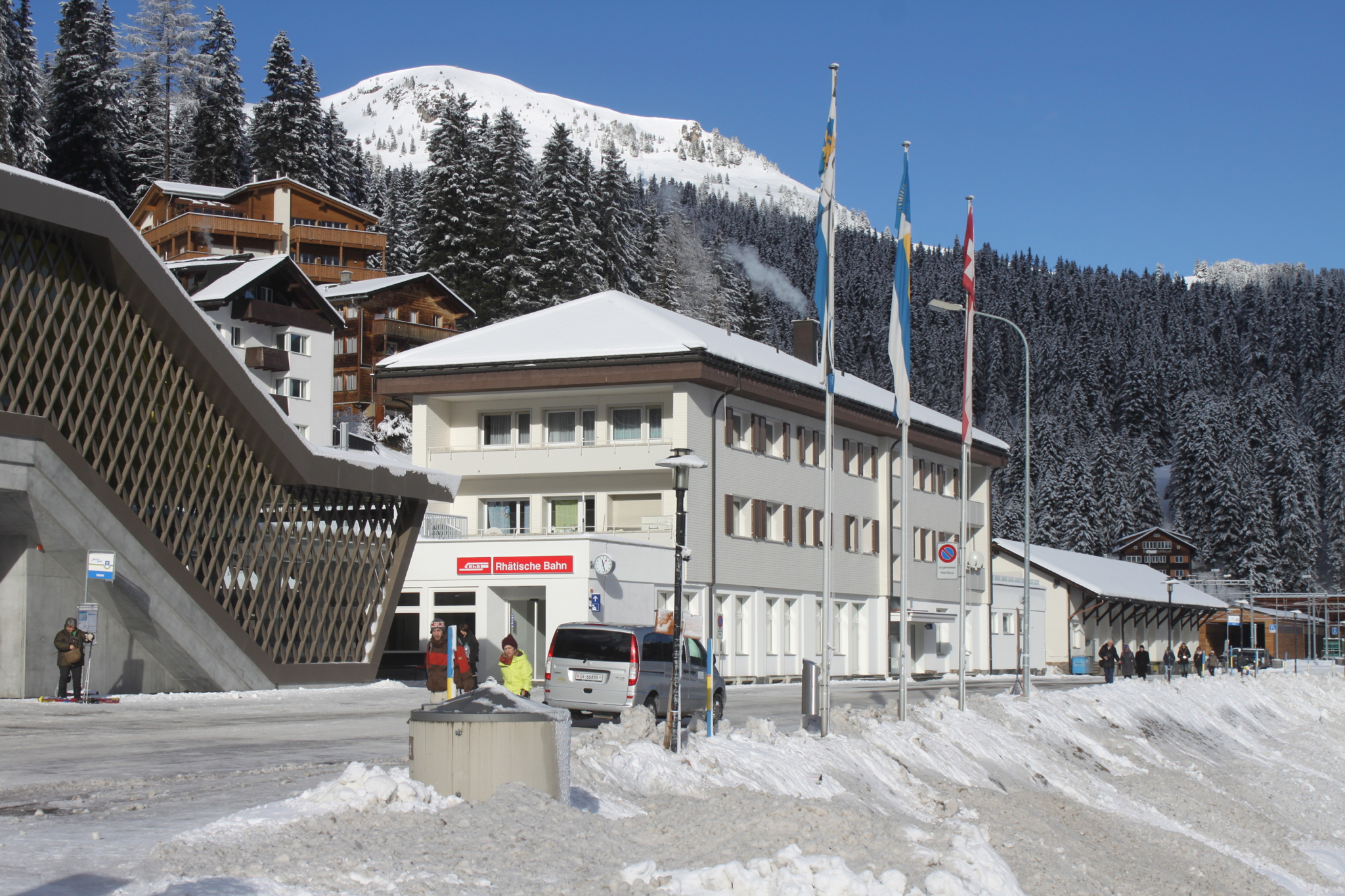 Arosa train station.